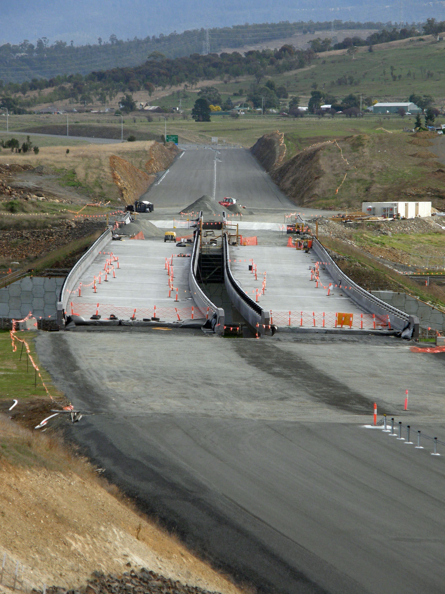 The Jordan River Levee Bridge nearing completion